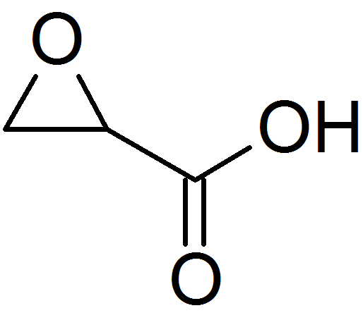 Glycidic acid